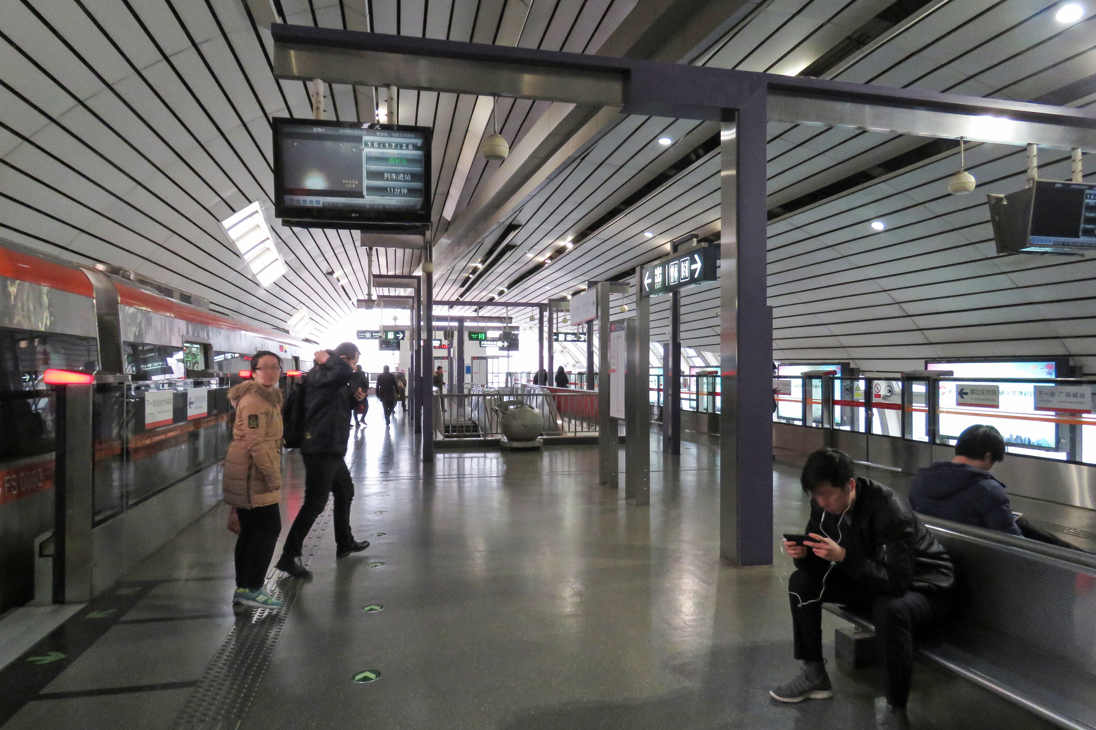 Now the university town has witnessed growing prosperity.